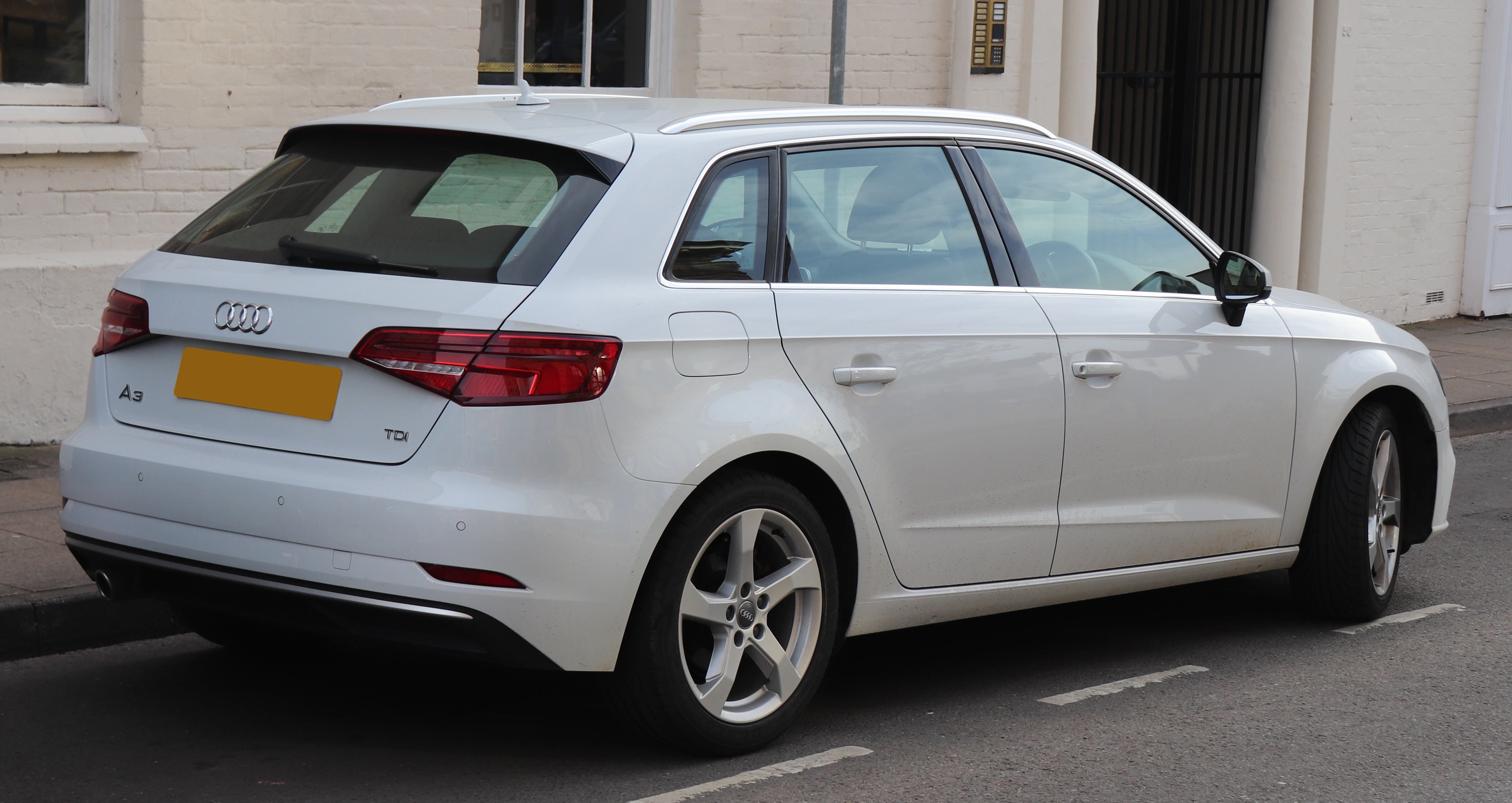 2016 Audi A3 Sport TDi 1.6 Rear Taken in Warwick